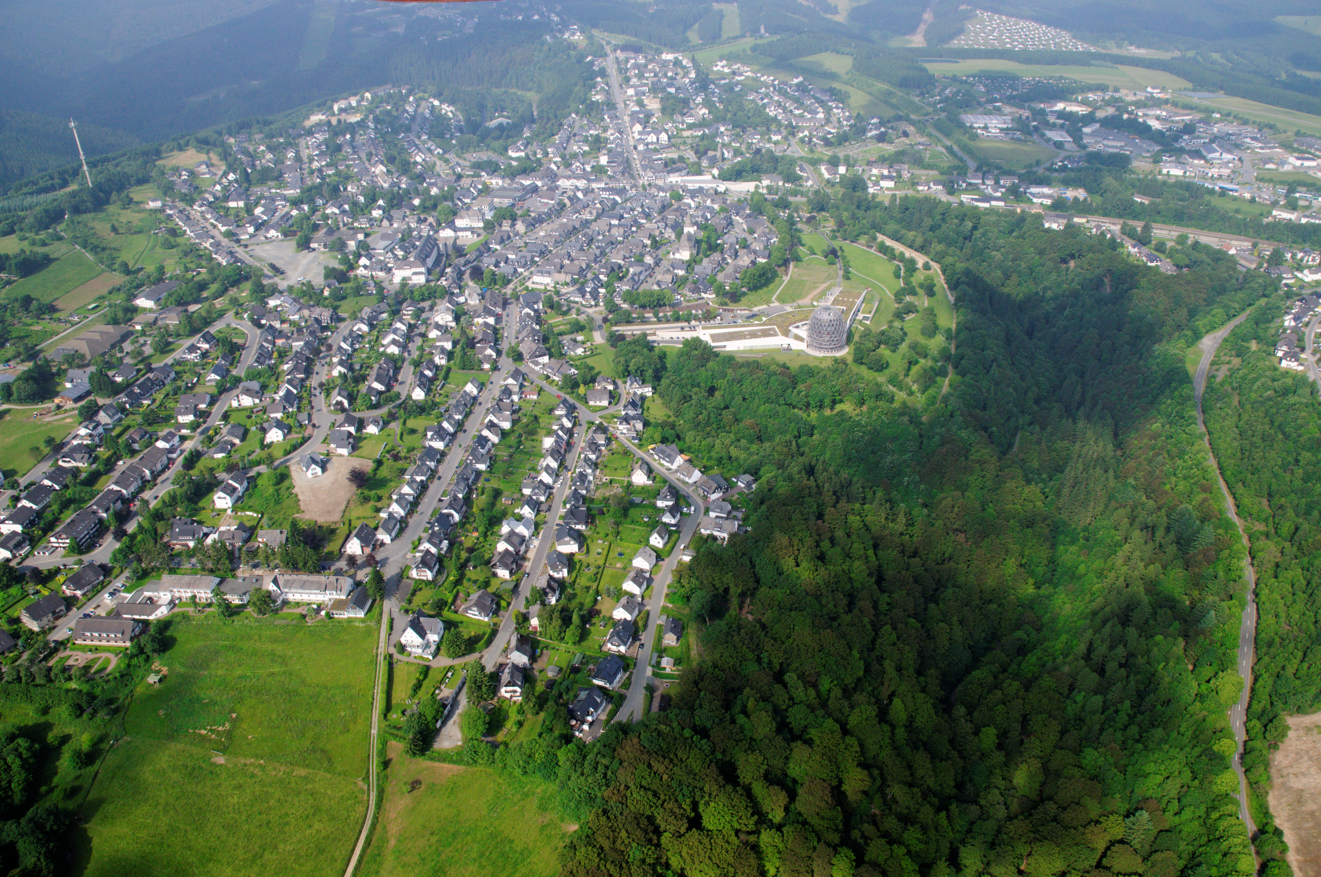 Fotoflug Sauerland-Ost: Winterberg The making of this document was supported by the Community-Budget of Wikimedia Germany.